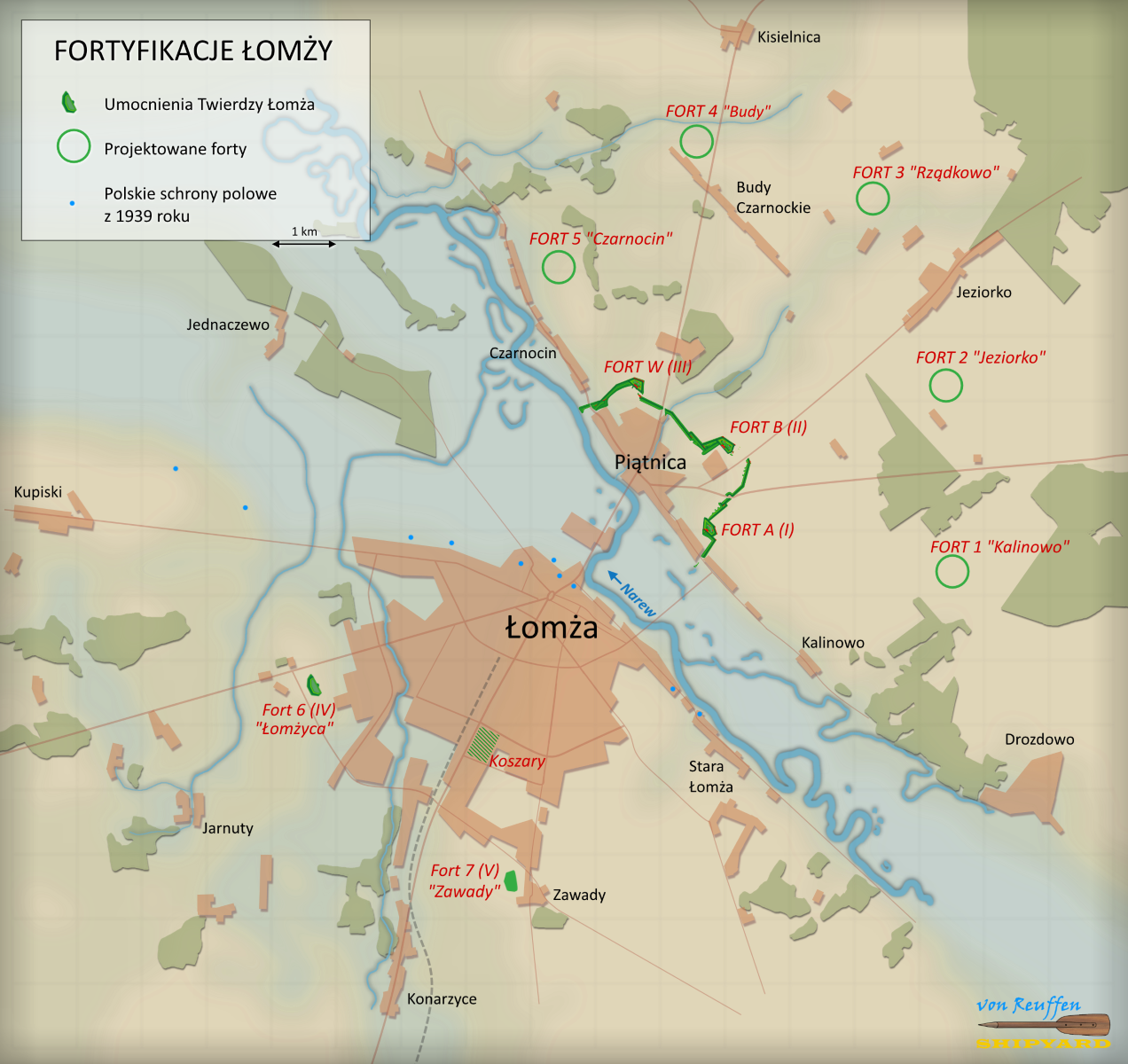 Fortifications in Lomza, Poland